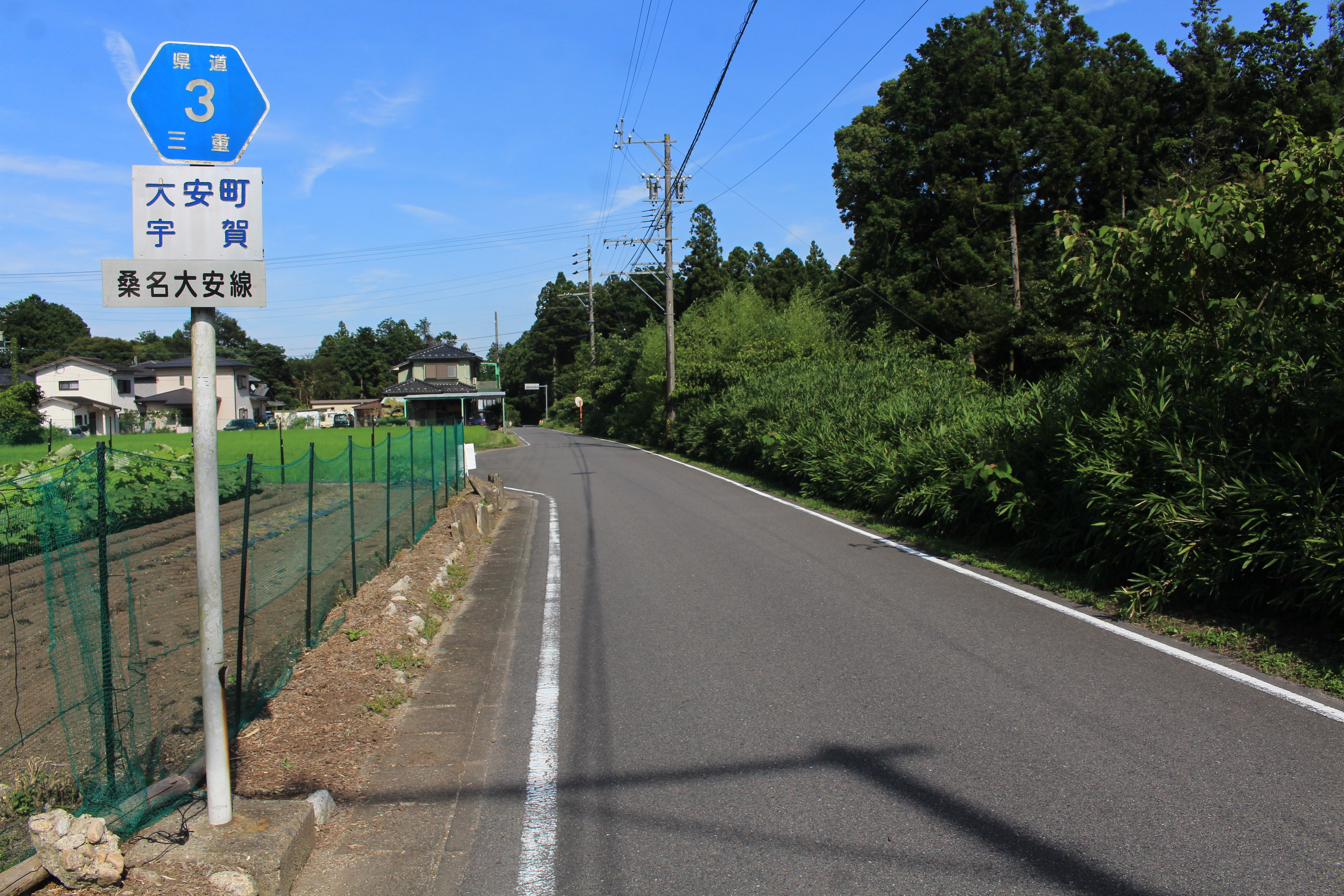 Mie Prefectural Road Route 3 in Uga, Daian-cho, Inabe city, Mie prefecture, Japan.